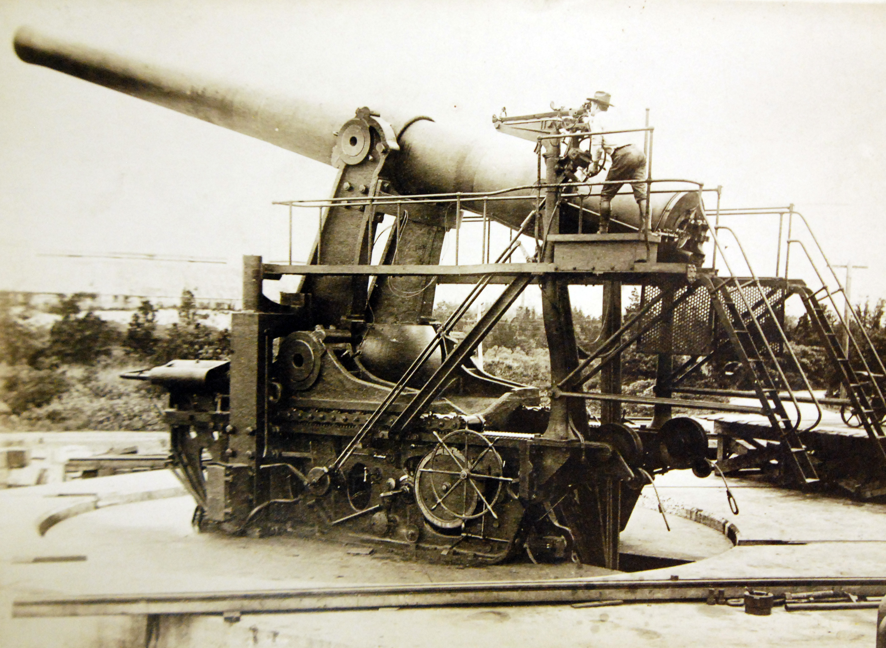 Lot-10942-6: 14” Gun, Sandy Hook, New Jersey, November 27, 1912. The first coast defense gun of 14” bore has just been tested at Sandy Hook. 14” were also on U.S. Navy ships and the Army has been working for a long time to adapt that size of weapon to the coast defense in Manila Harbor. In the first test of the gun, six shots were fired in three minutes and forty-five seconds. The projectile fired weights 1660 pound and is 65 inches long. The only point at which the new gun has not the advantage is in the trajectory point at which is more curved and the speed of the shot which is somewhat less. George C. Bain Collection. Courtesy of the Library of Congress. (2016/07/15).